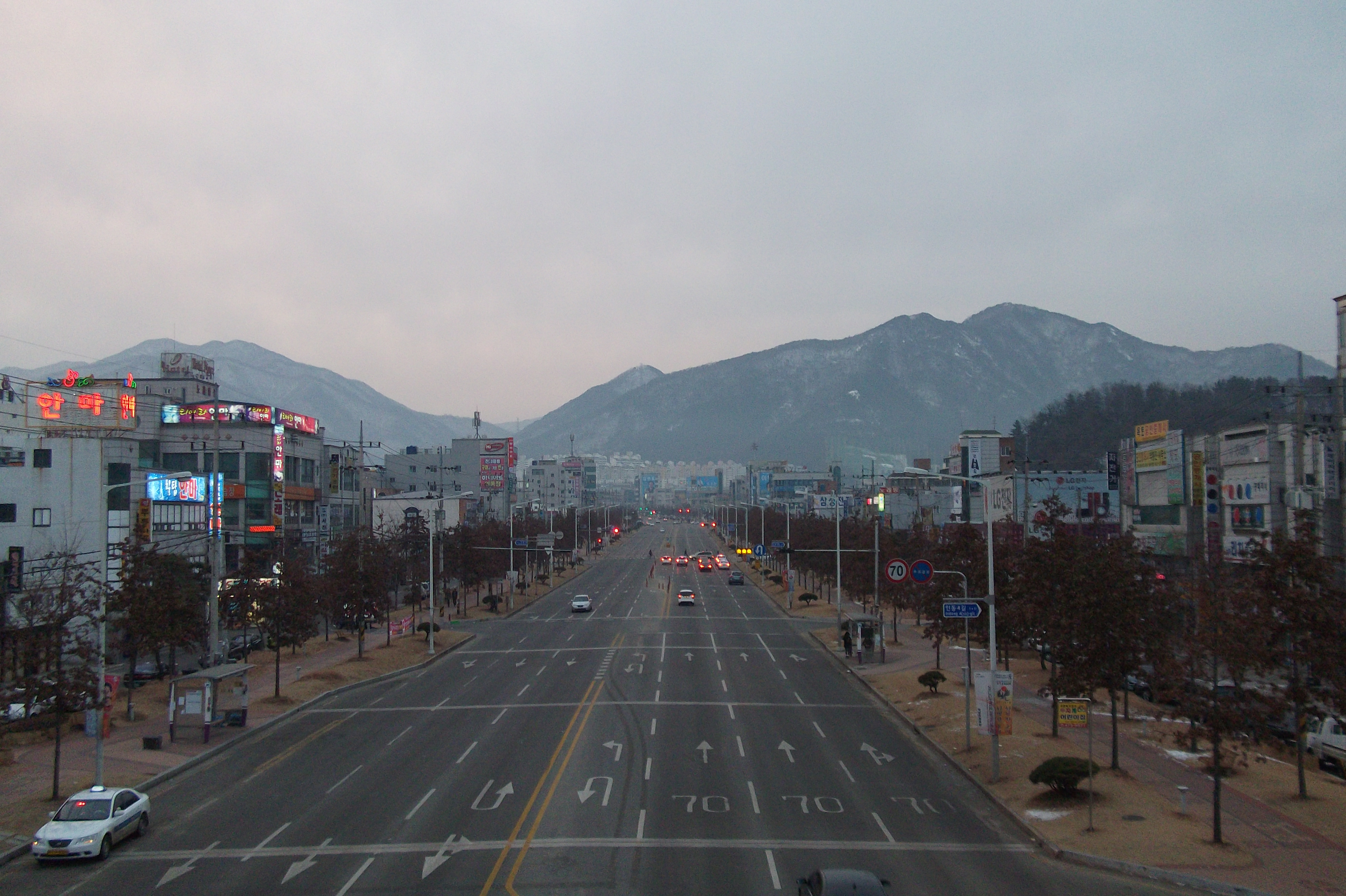 Indong highway at dawn